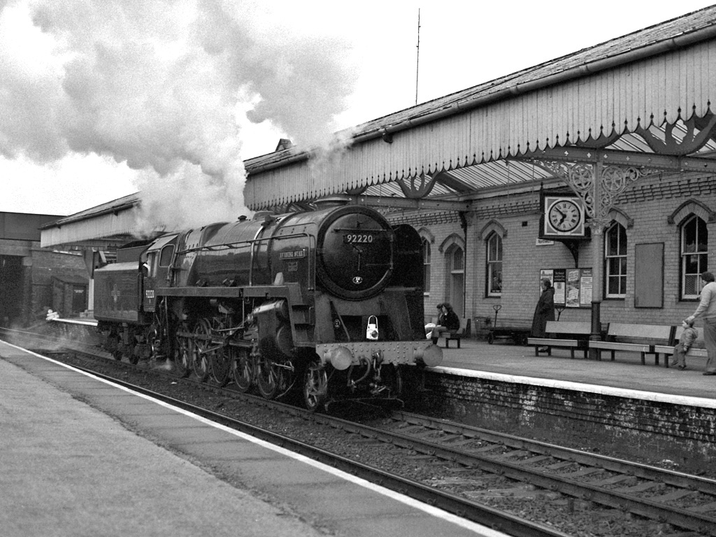 British Railways Riddles 'Standard' 9F 2-10-0 locomotive number 92220 EVENING STAR of York MPD passes through Northwich station on the Up Main line running light engine from Chester to York National Railway Museum (0Z00). Saturday 21st May 1983